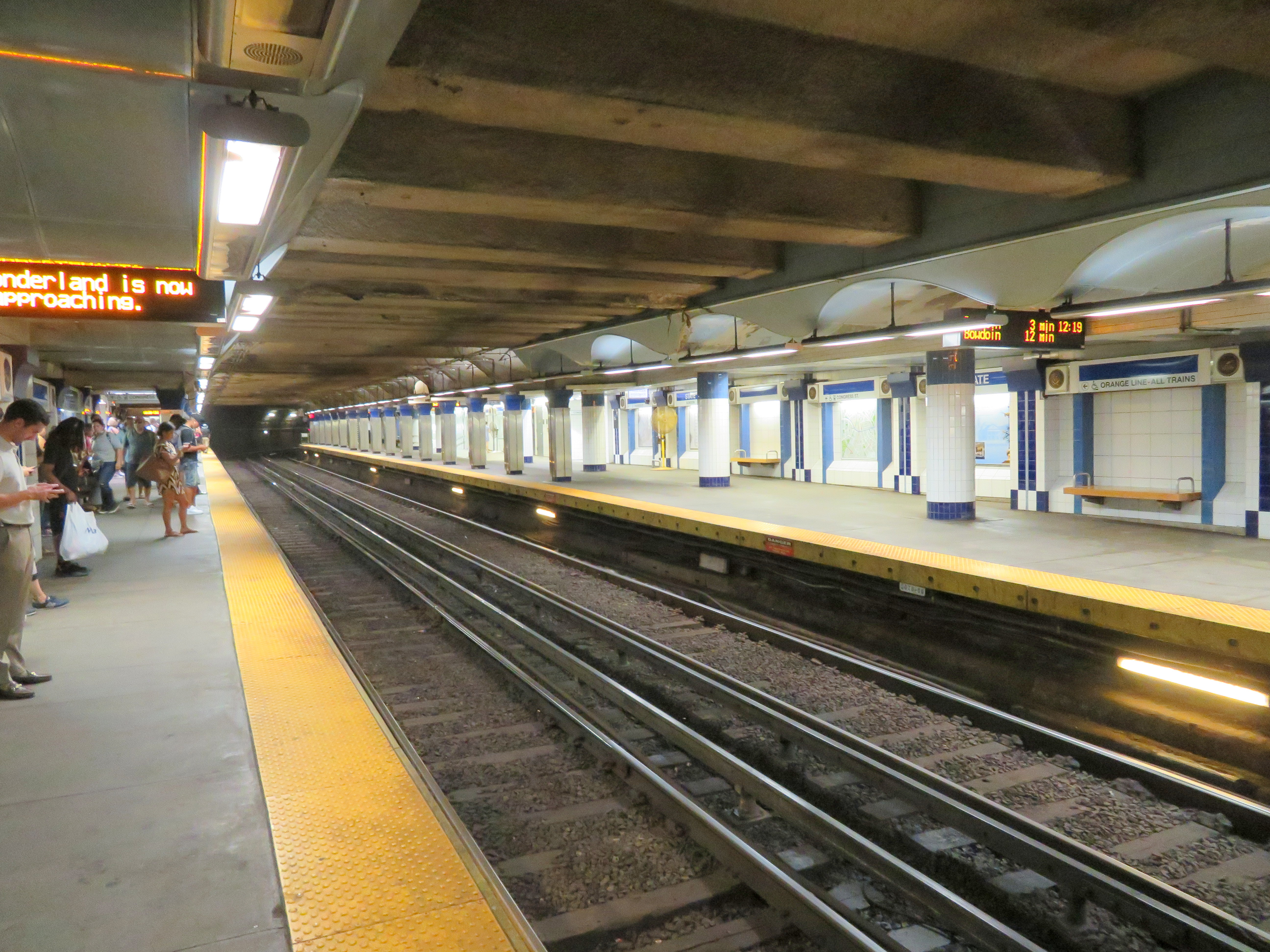 Blue Line platforms at State station in August 2018